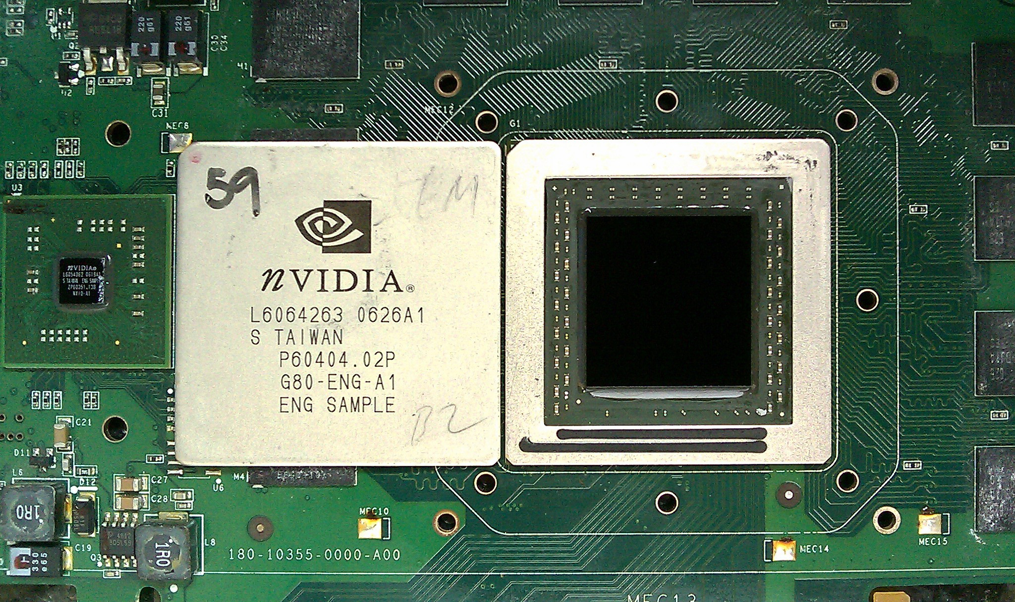 NVIDIA G80-ENG-A1 GPU